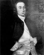 From the U.S. Senate Historical Office